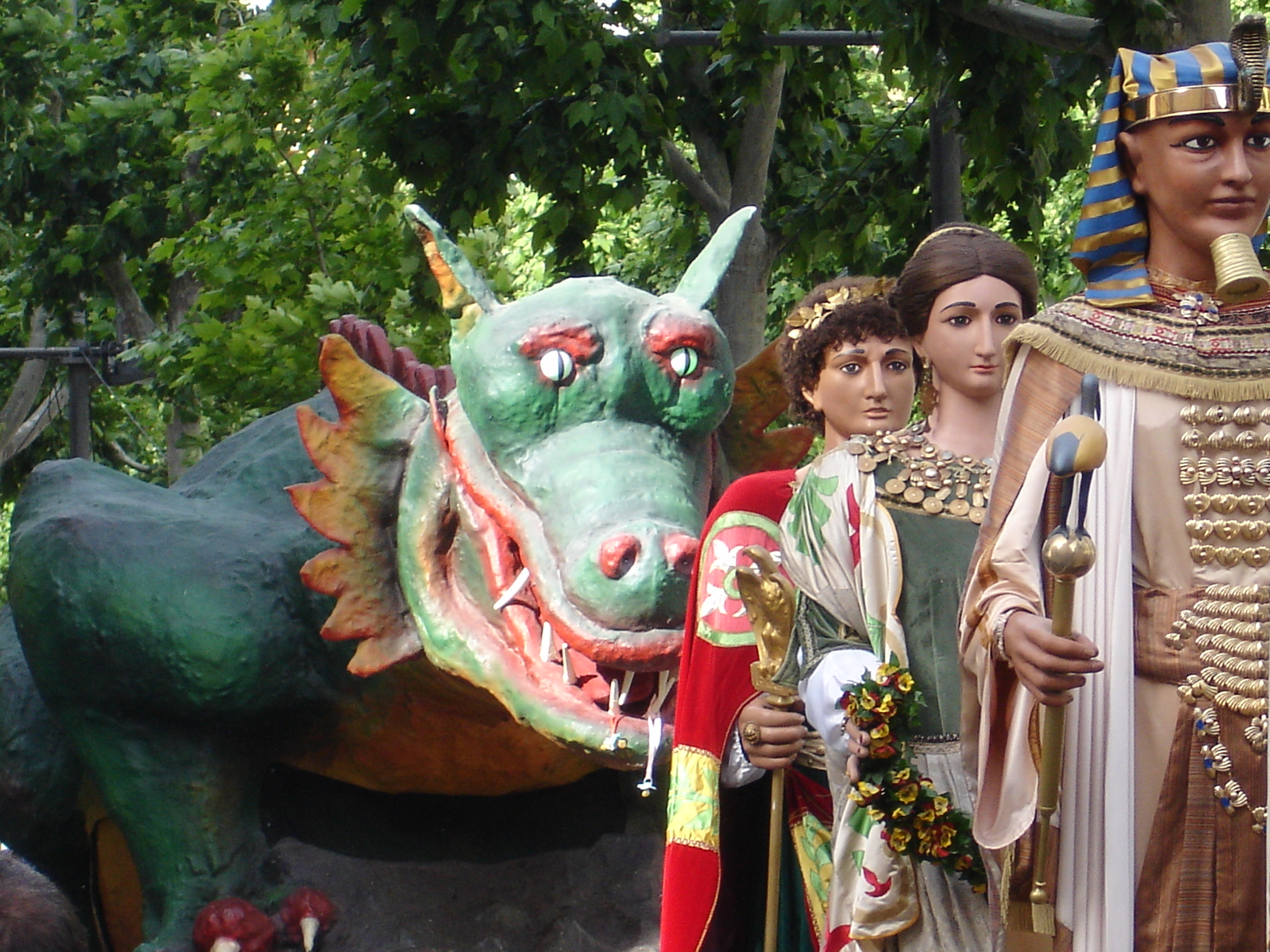 The "Marraco" and the Giants of Lleida (Spain)